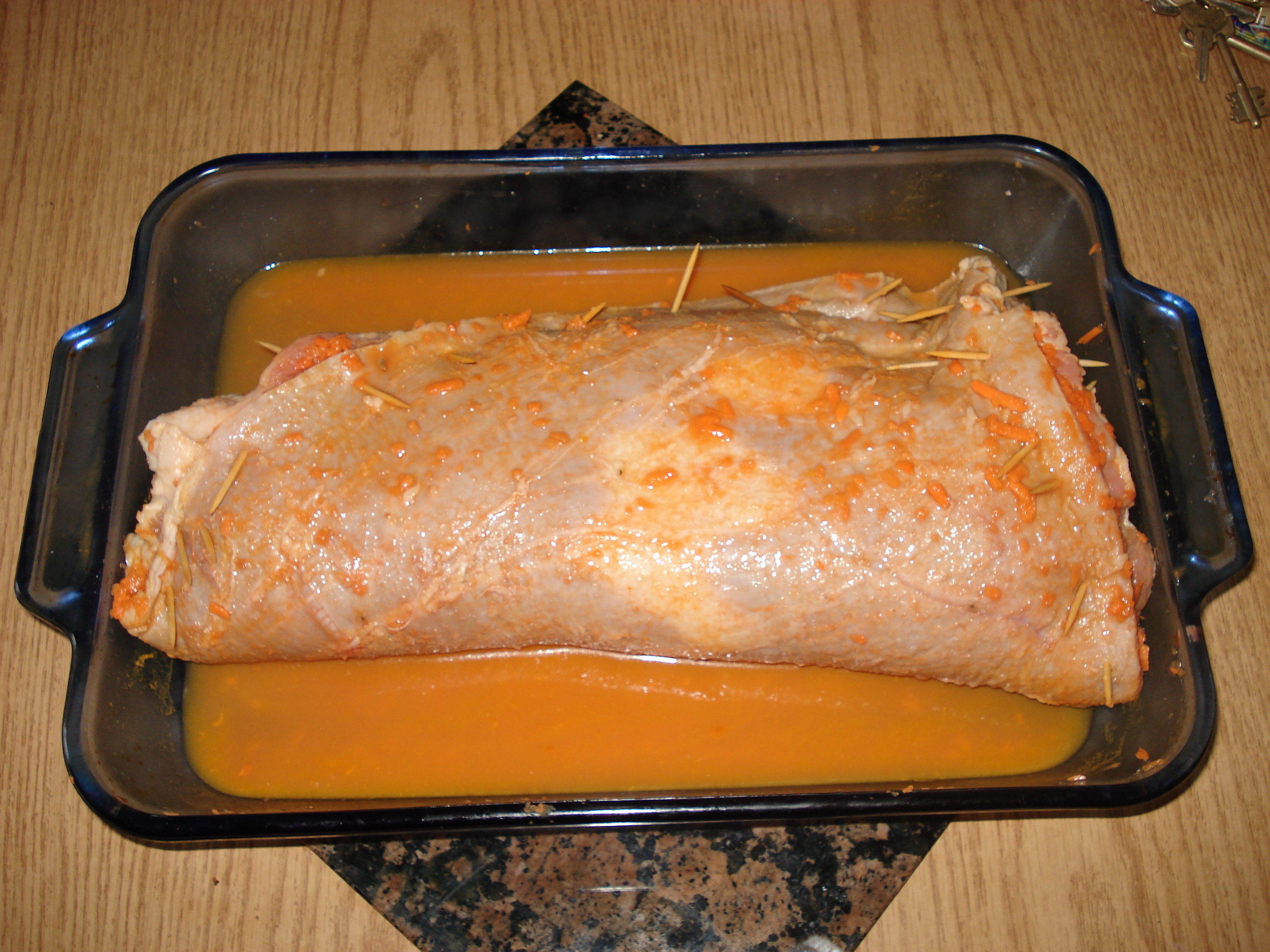 Matambre relleno al medio.